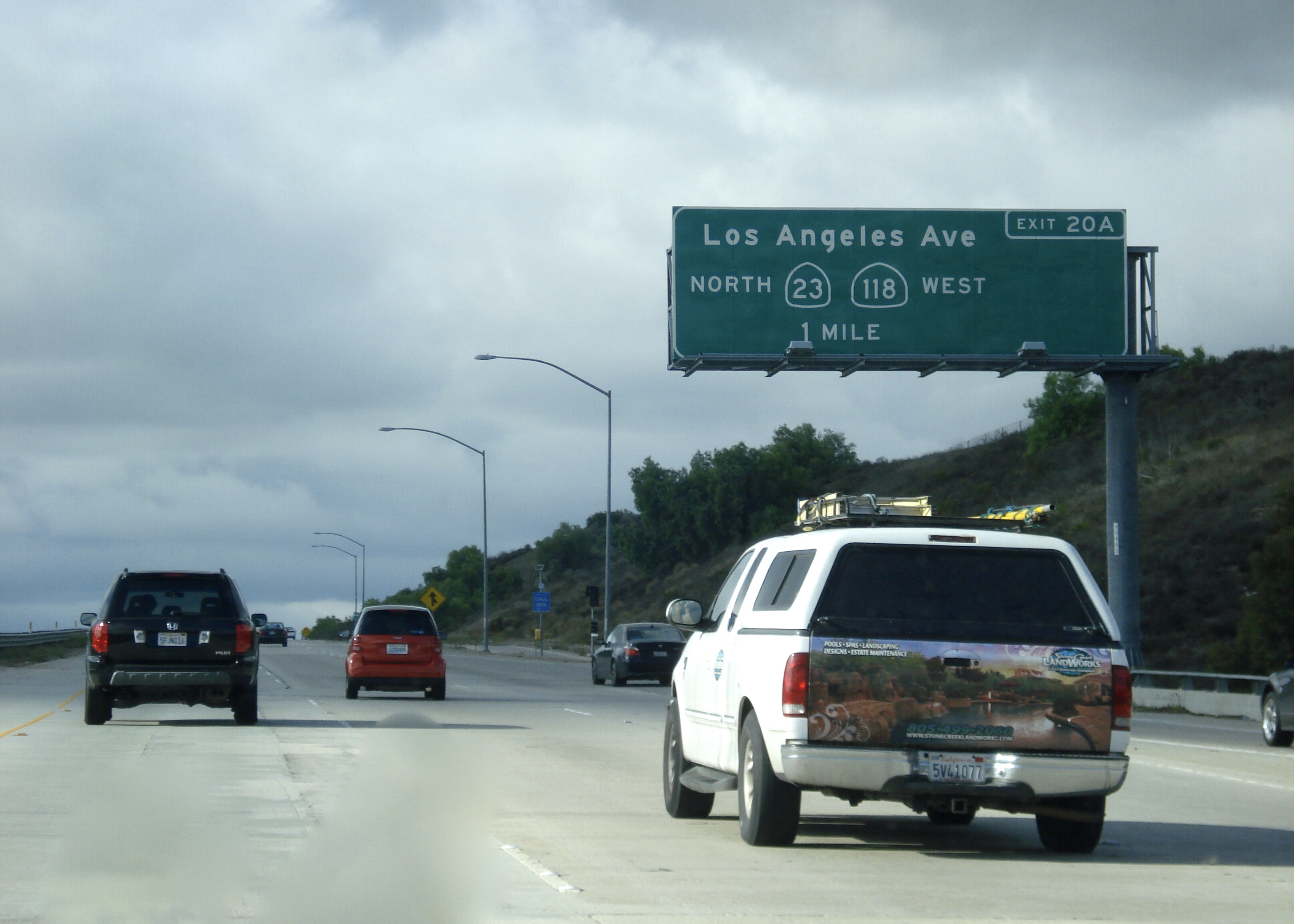 Northern terminus of California State Route 23 outside Moorpark